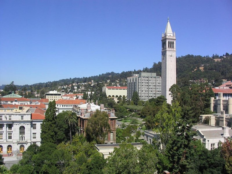 The campus of University of California, Berkeley in Berkeley, California showing Sather Tower in addition to a number of other academic buildings including Wheeler Hall on the left (with the clay-tile roof), South Hall near the middle, Evans Hall to the left of Sather Tower, and Davis Hall to the left of that. [It appears the image was taken from Barrows Hall looking north. Because this is uncertain, the coordinates listed below may not be completely accurate.]